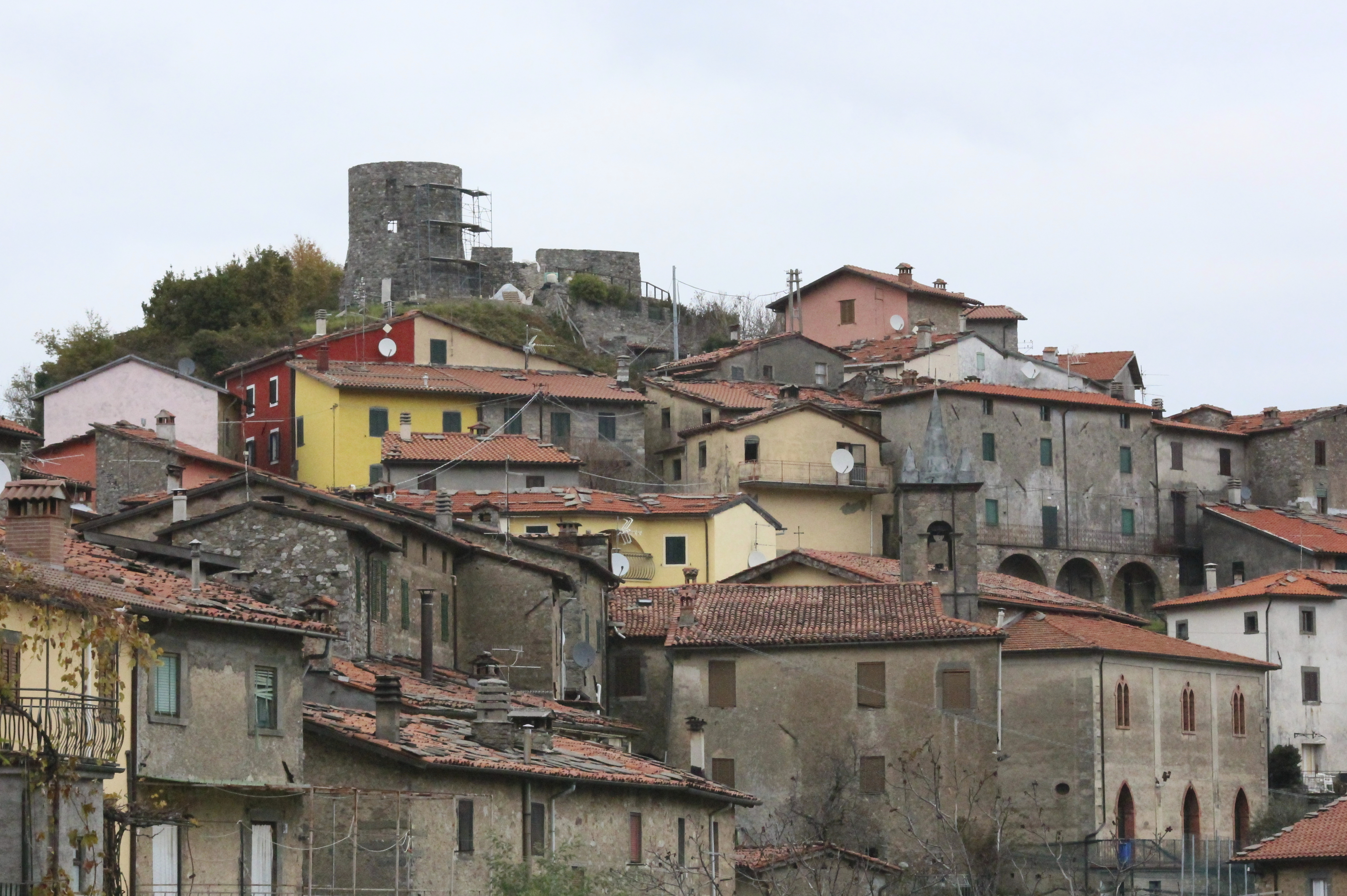 Trassilico, hamlet of Gallicano, Province of Lucca, Tuscany, Italy